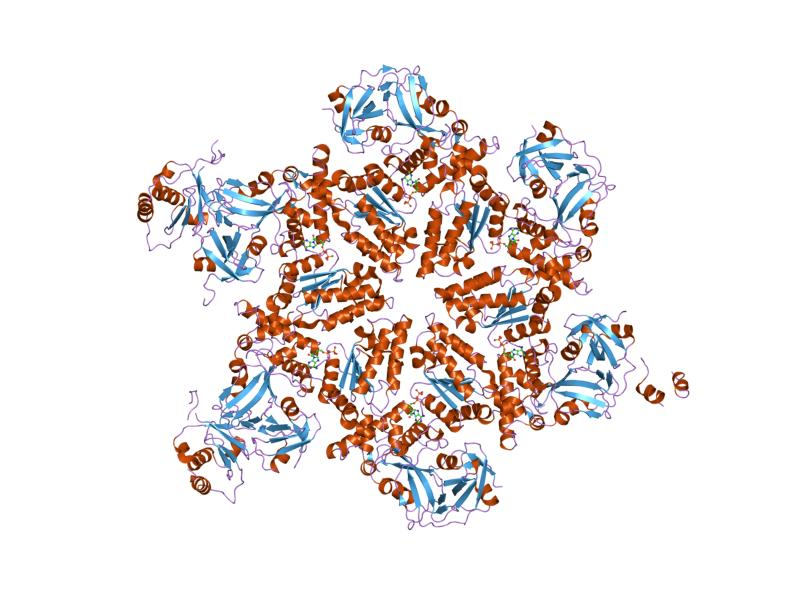 Cartoon representation of the molecular structure of protein registered with 1s3s code.